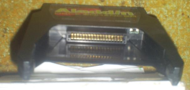 This is a picture I took of the Aladdin Deck Enhancer by Camerica showing its connections for the Compact Cartridges and the recessed Security/Region switch.